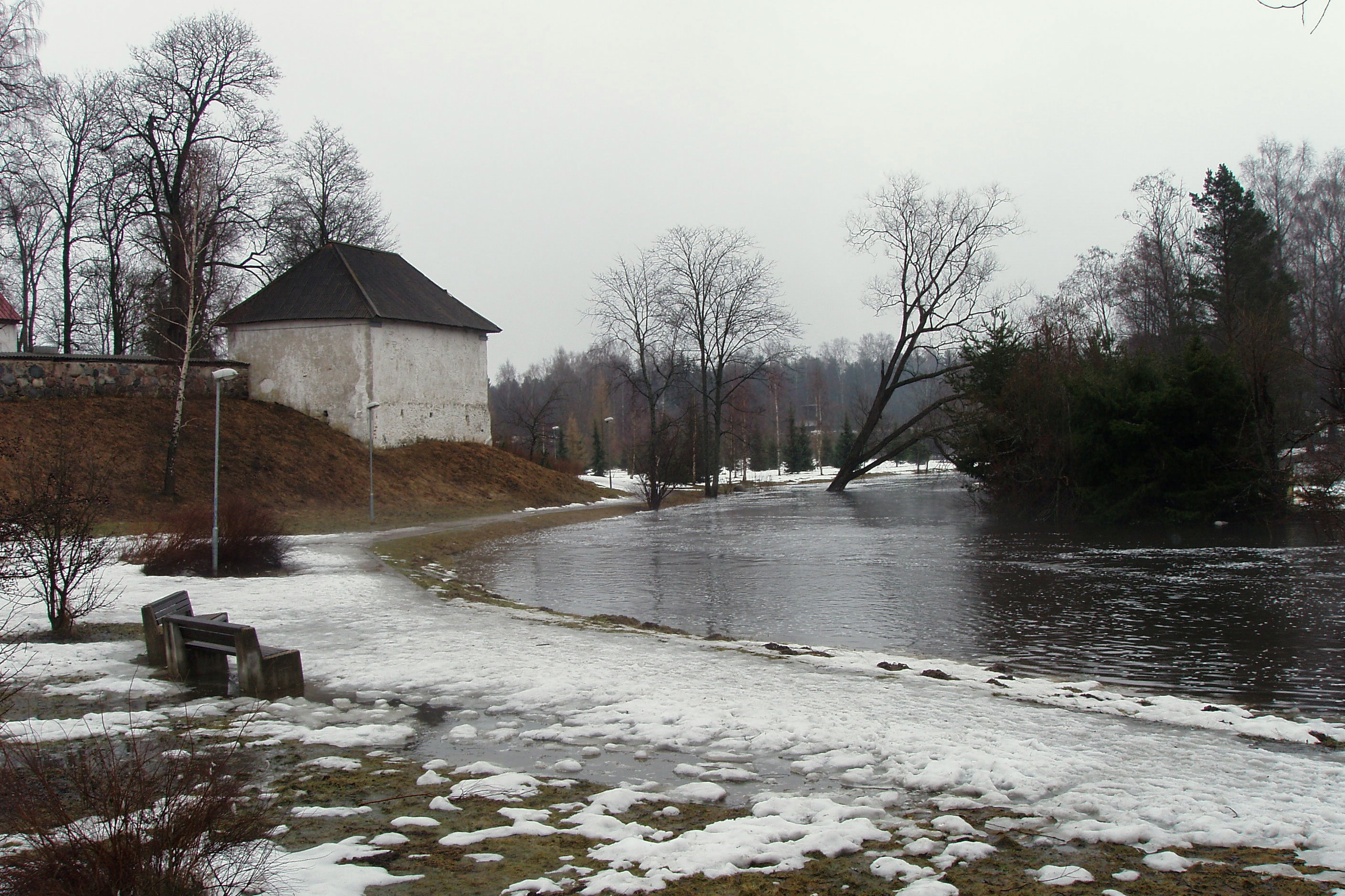 Pirita River flooding in spring. Kose, Harju County.